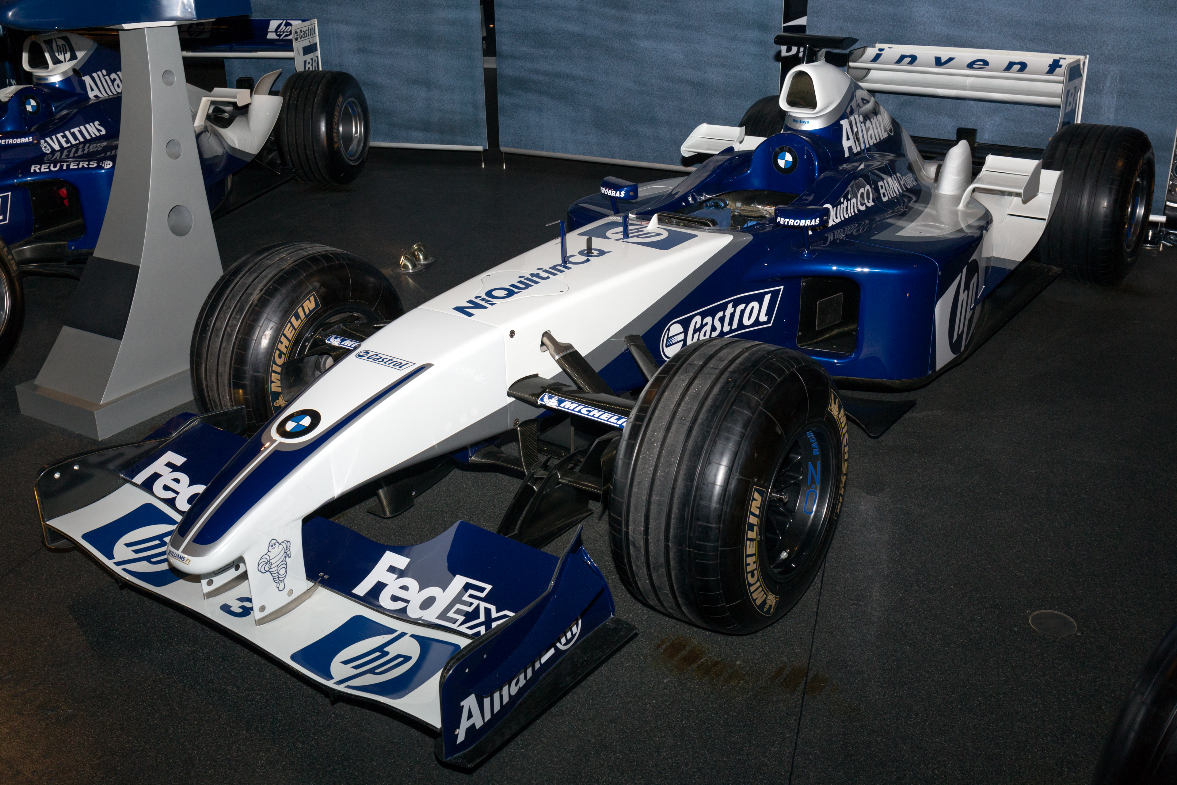 Williams Conference Centre (Grove): Williams FW25 of Juan Pablo Montoya